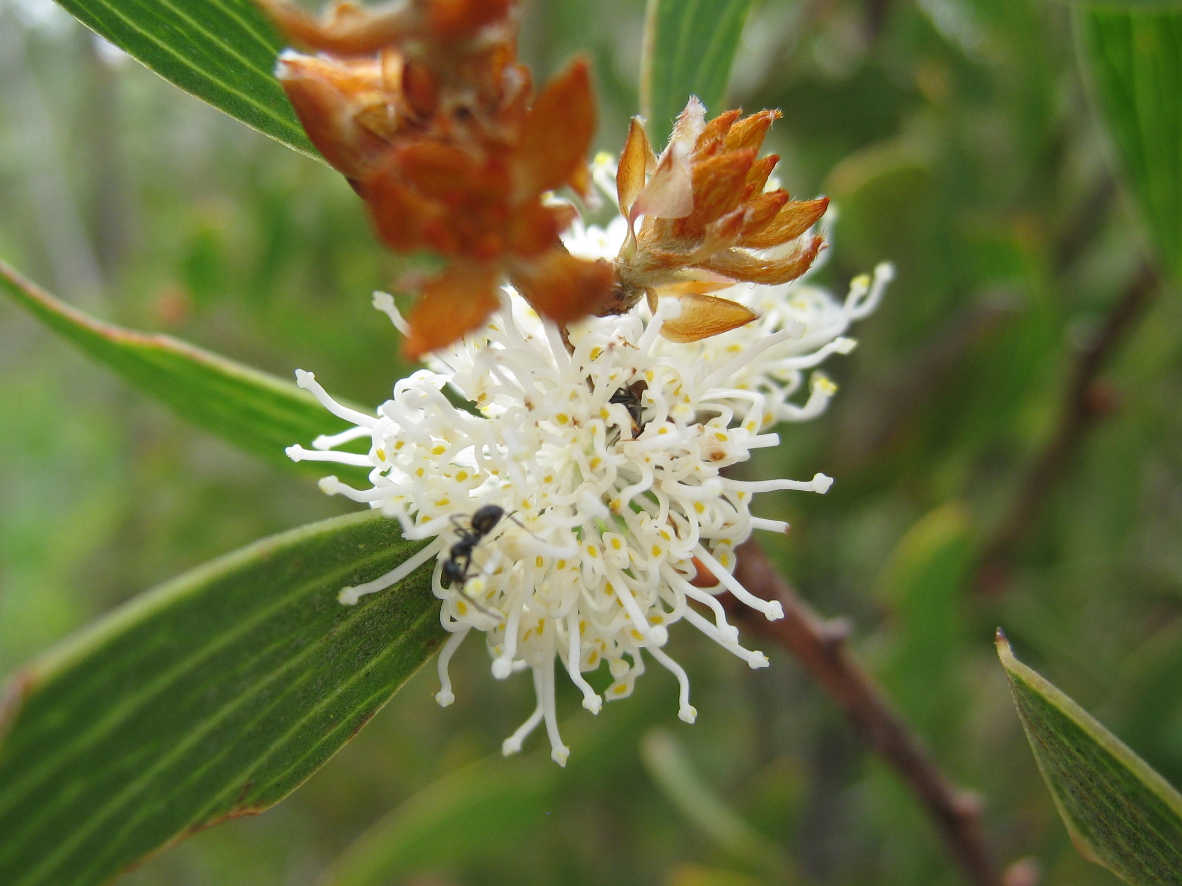 Probably Hakea dactyloides. Royal National Park, NSW Australia, December 2010.